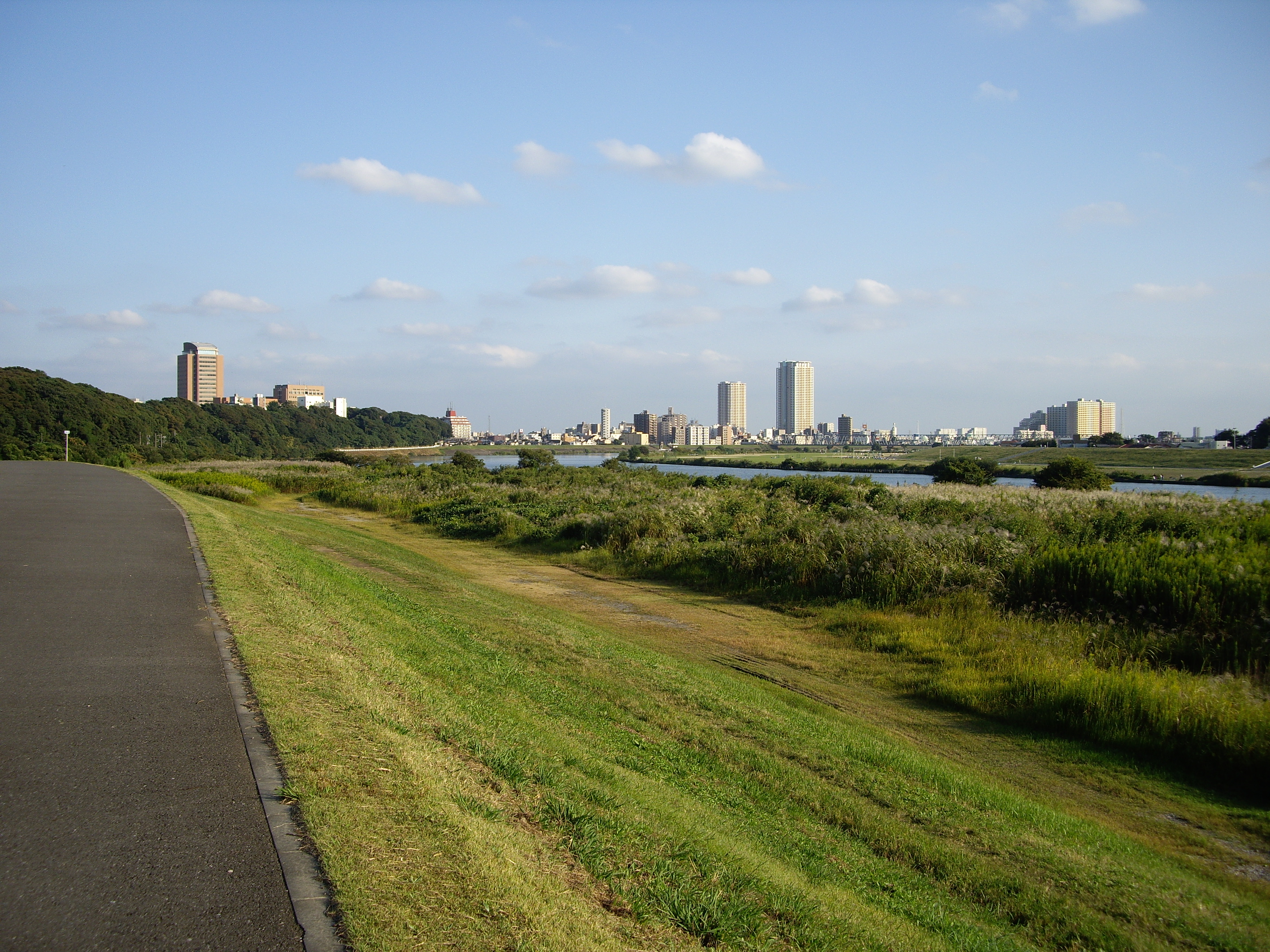 Edo river with the city of Ichikawa in the background (Chiba, Japan)